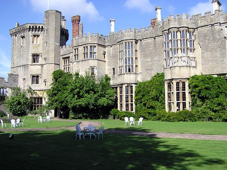 The west front of Thornbury Castle, Thornbury, near Bristol, England. Taken by Adrian Pingstone in September 2004 and released to the public domain.